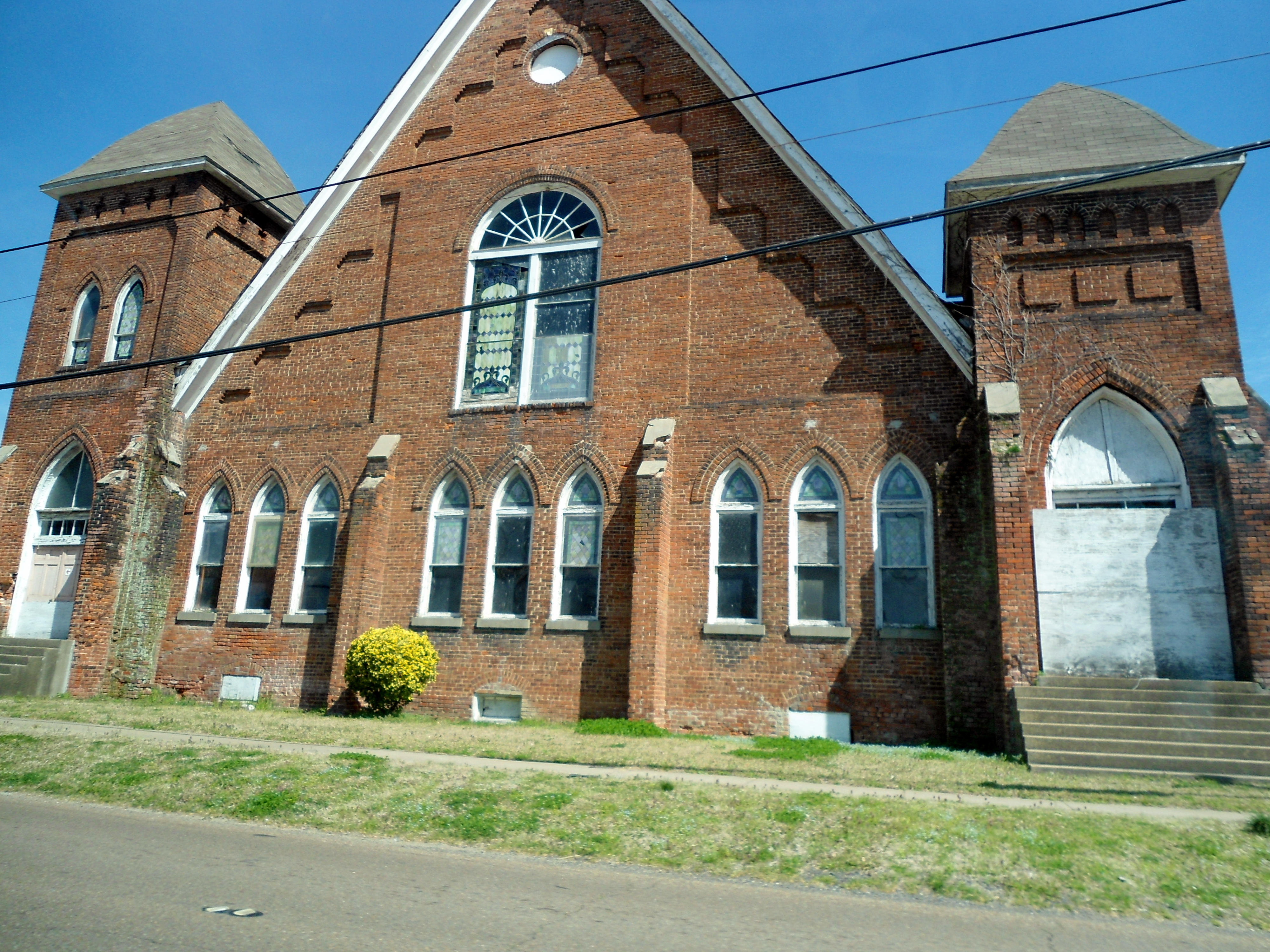 Historic African American church on the NRHP